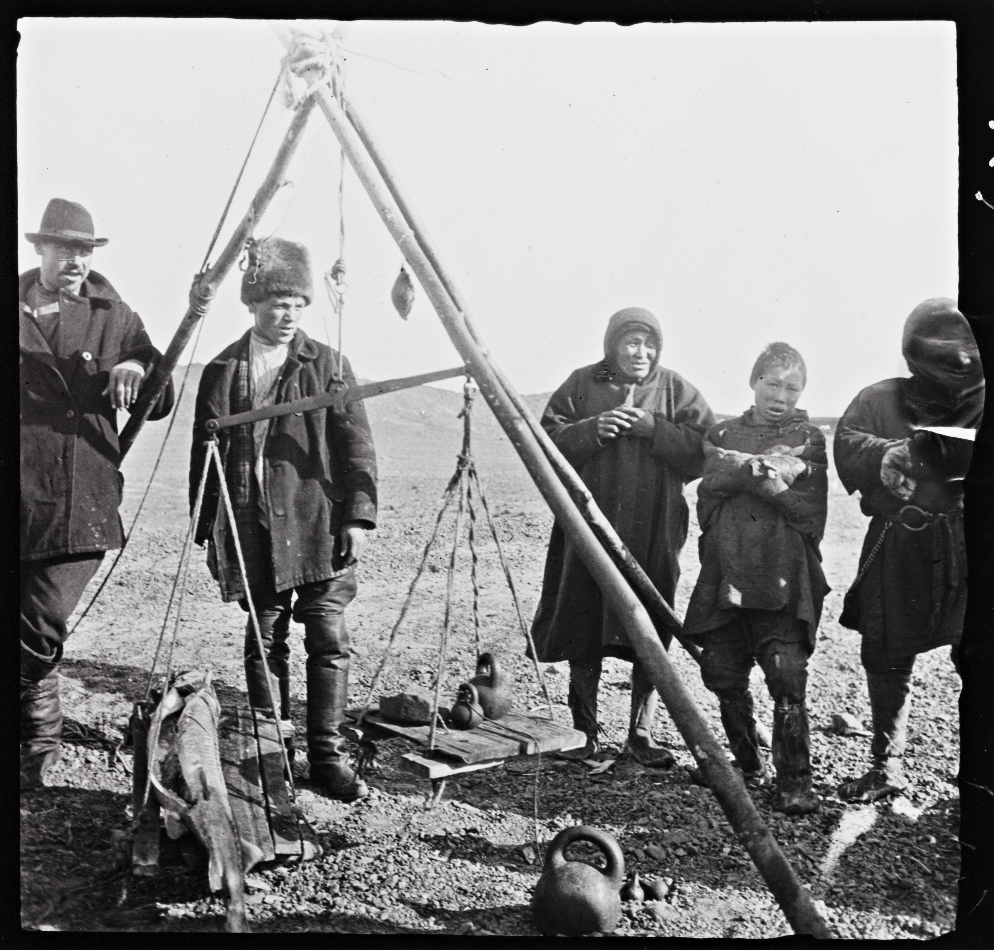 Beskrivelse / Description: Her veies det en stør, som ble kjøpt av mannskapet fra «Omul». Ett av bildene fra reisen til Sibir i perioden 2. august - 26. oktober 1913. Dato / Date: 5. september 1913 Sted / Place: Russland, Levenskij Pesok Fotograf / Photographer: Fridtjof Nansen (1861-1930) Digital kopi av original / Digital copy of original: negativ Eier / Owner Institution: Nasjonalbiblioteket / National Library of Norway Lenke / Link: Bildesignatur / Image Number: bldsa_3f069